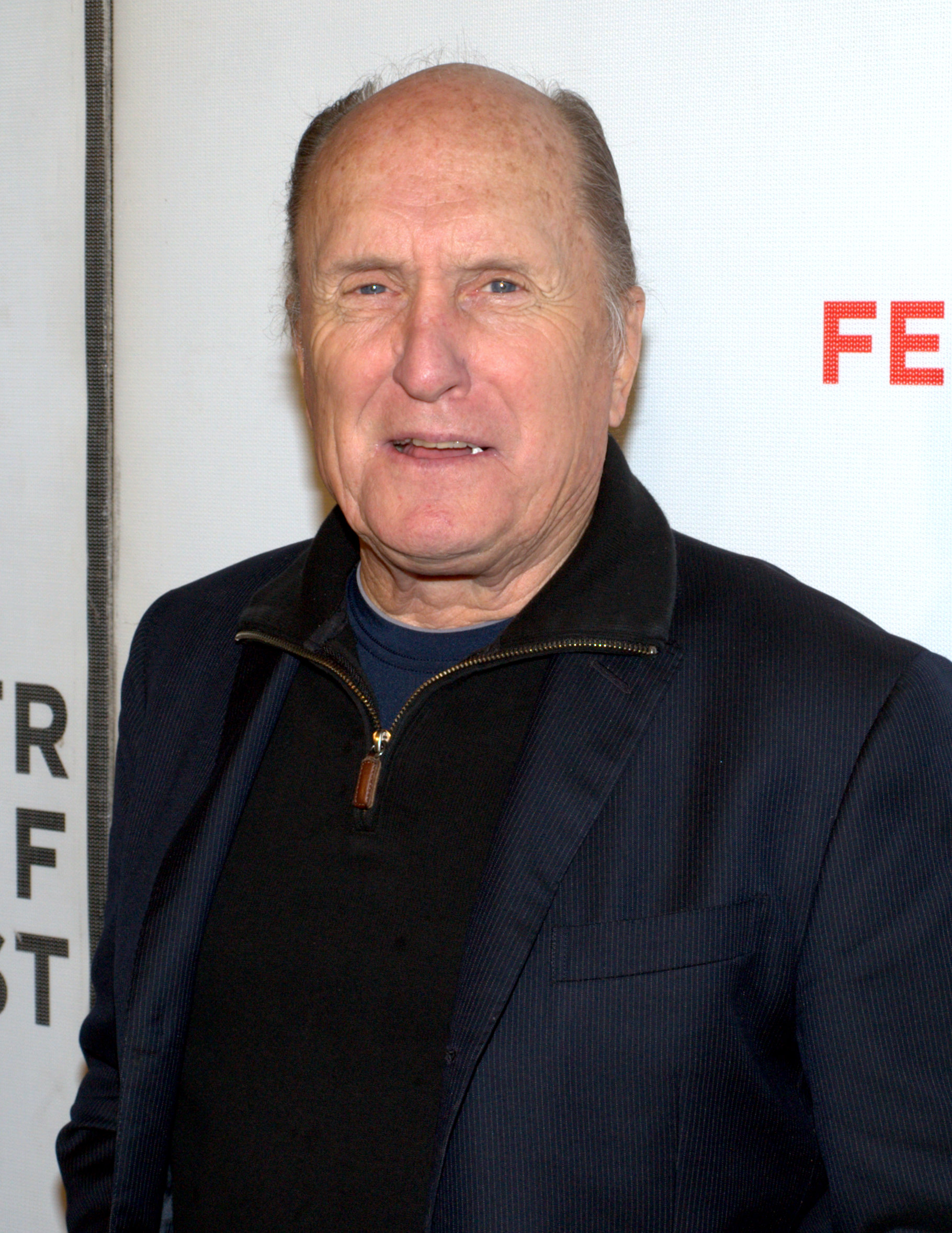 Robert Duvall at Tribeca Film Festival 2010